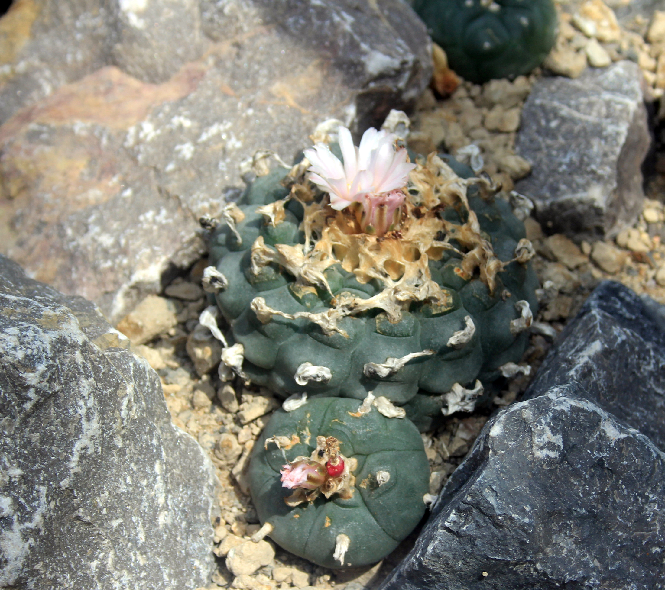 Peyote cactus with fruit (bottom), Lophophora williamsii, The Botanical Gardens of Charles University, Prague, Czech Republic